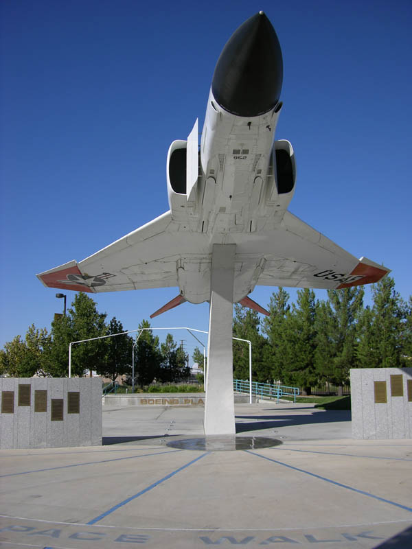 Plane at the Aerospace Walk of Honor — in Lancaster, Antelope Valley, Southern California.